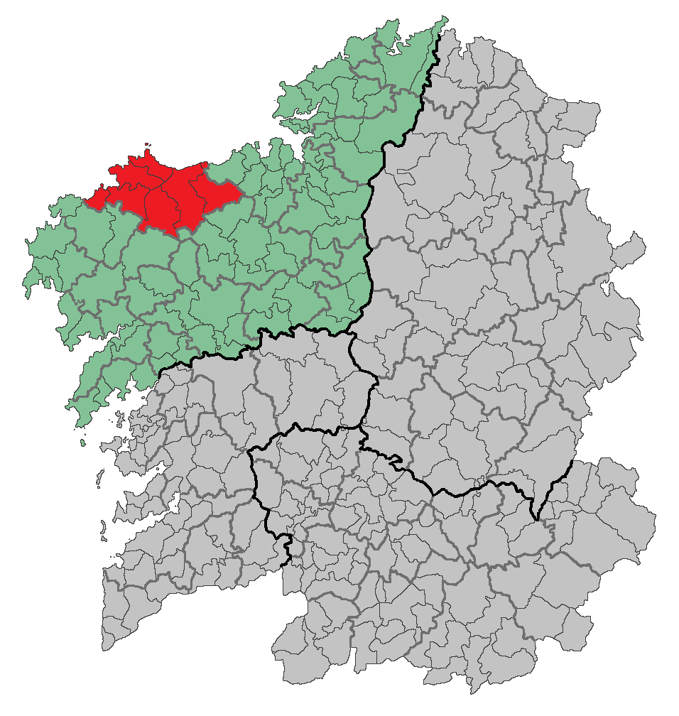 Region of Galicia (Spain) Based in: Image:Location of Carballo.png Source: Designed by Leoplus. Original picture, designed by Caiser.